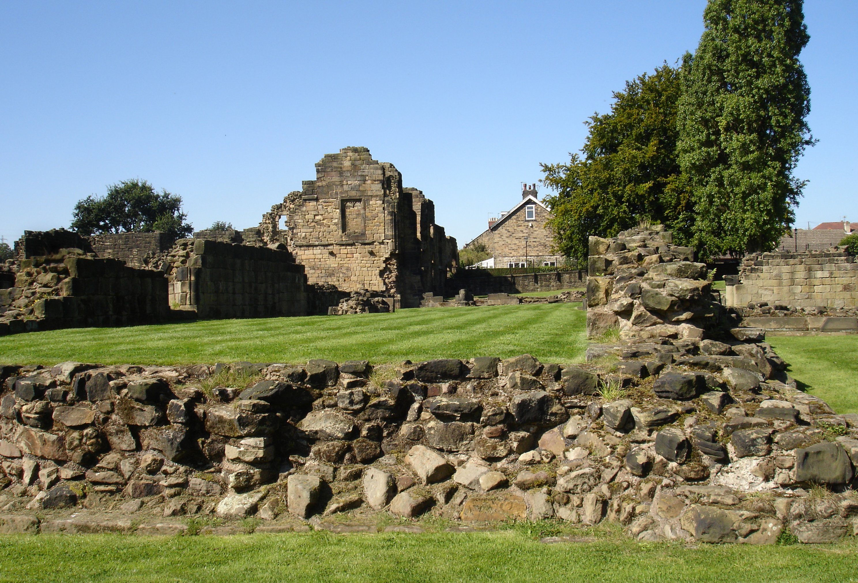 Photograph of Monk Bretton Priory, South Yorkshire, England